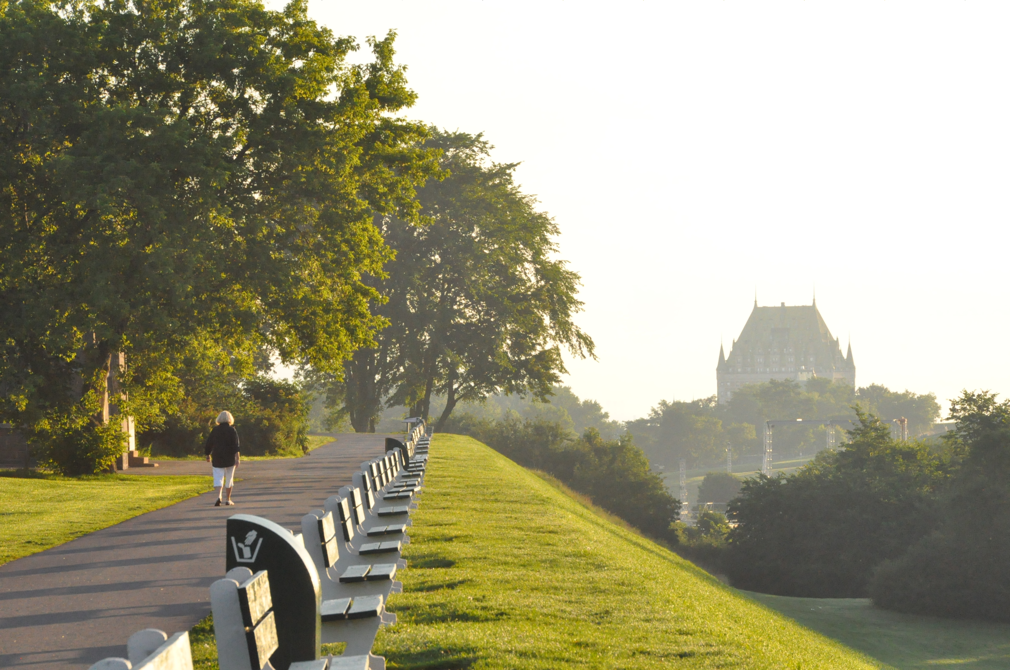 In the Plains of Abraham Park, in Québec, at sunrise.